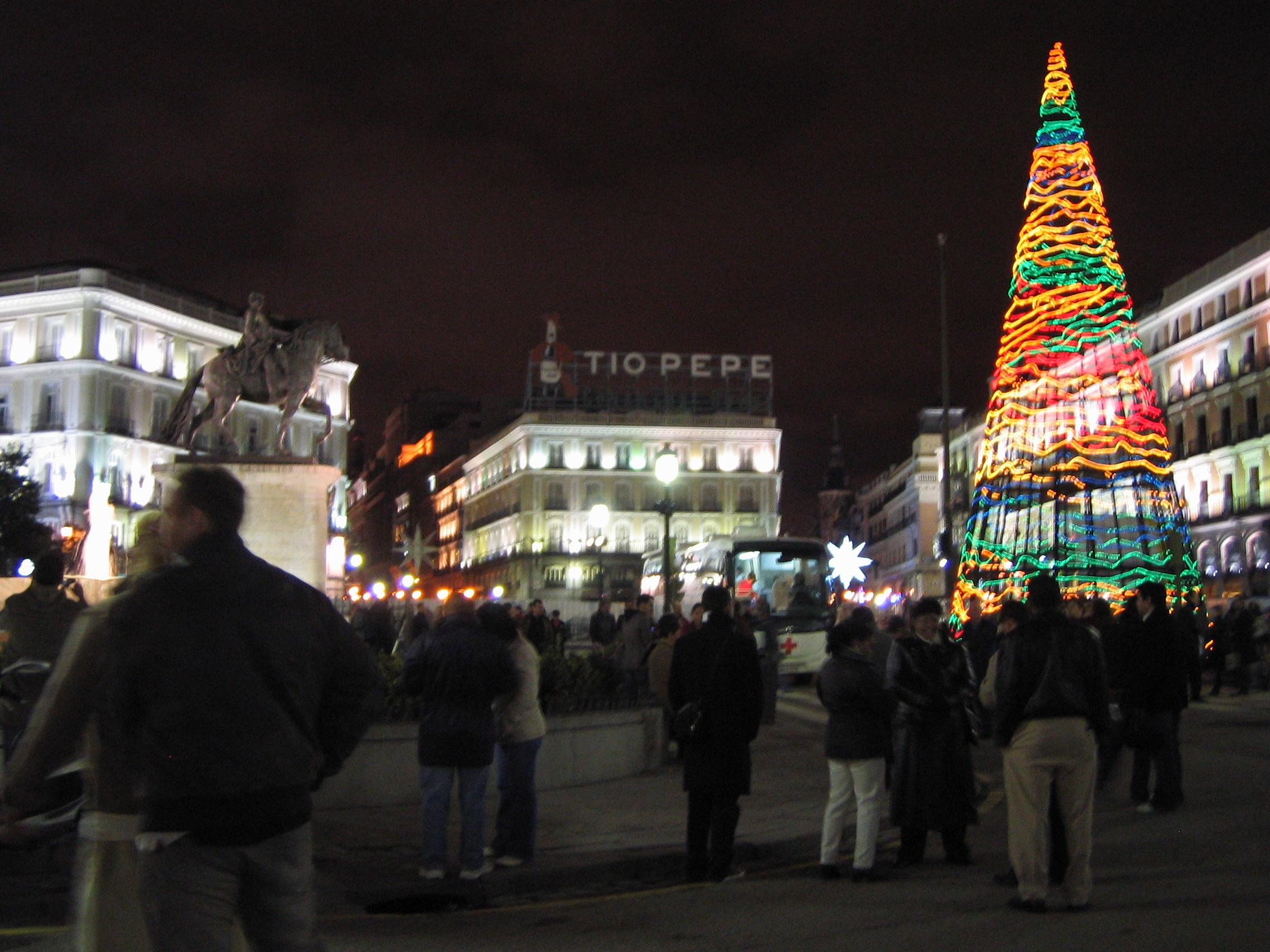 Christmas decoration of Puerta del Sol, in Madrid